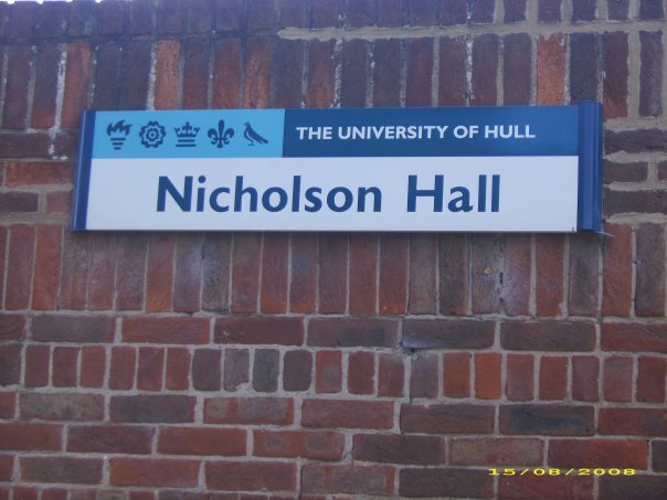 Nicholson Hall Sign, University of Hull, Cottingham, East Riding of Yorkshire, England.